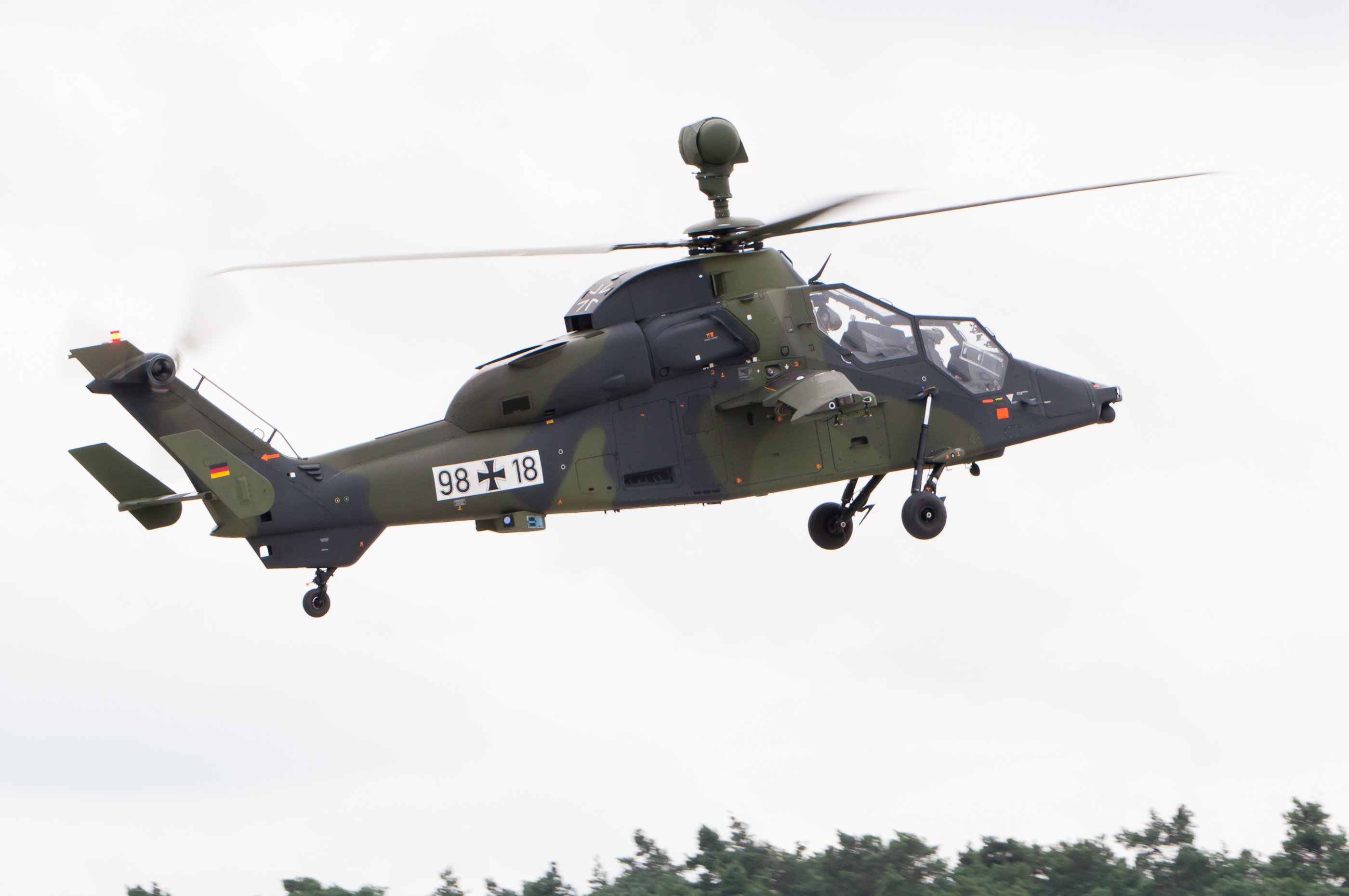 Eurocopter EC 665 Tiger UHT, reg. 98-18 (cn 1004), of the German Army, flying a display at ILA Berlin Air Show 2012.